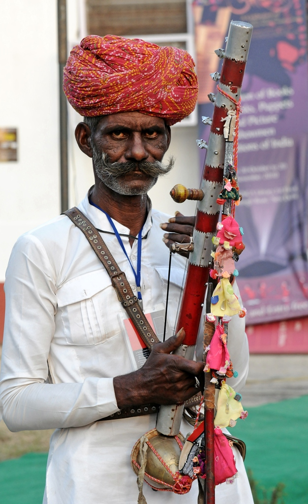 Rajasthani folk singer with ravanhatta (or ravanahatha) at the Akhyan festival in Indira Gandhi National Center for the Arts (IGNCA), near India Gate New Delhi, India. The instrument is mostly used by Bhopas, religious nomadic folk musicians.